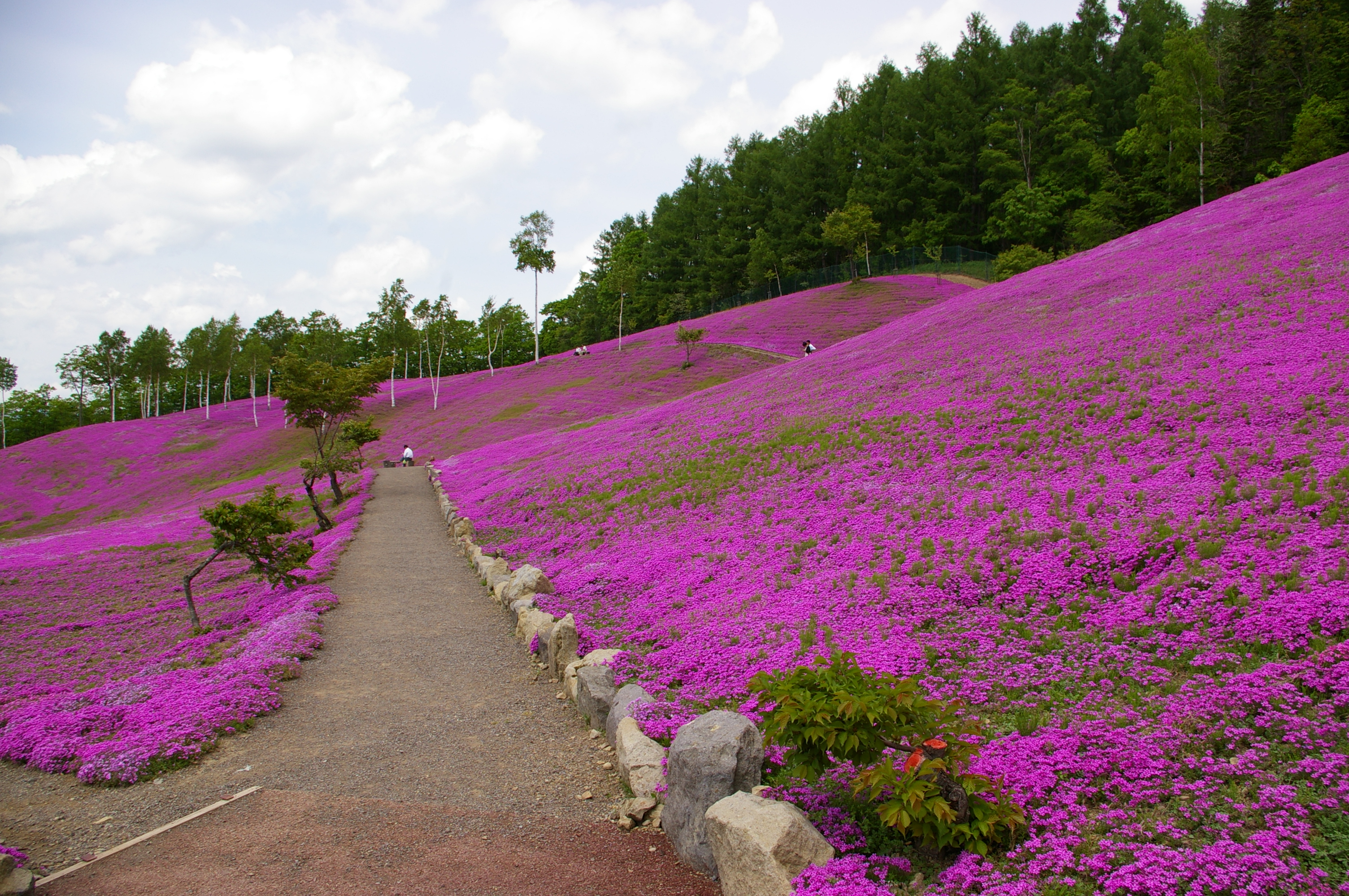 gregarious moss phlox in Takinoue Park, Takinoue, Hokkaido